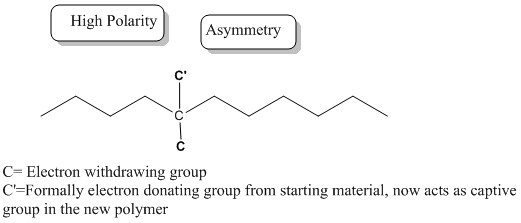 demonstrates the ability for the captodative monomer to form a polar polymer